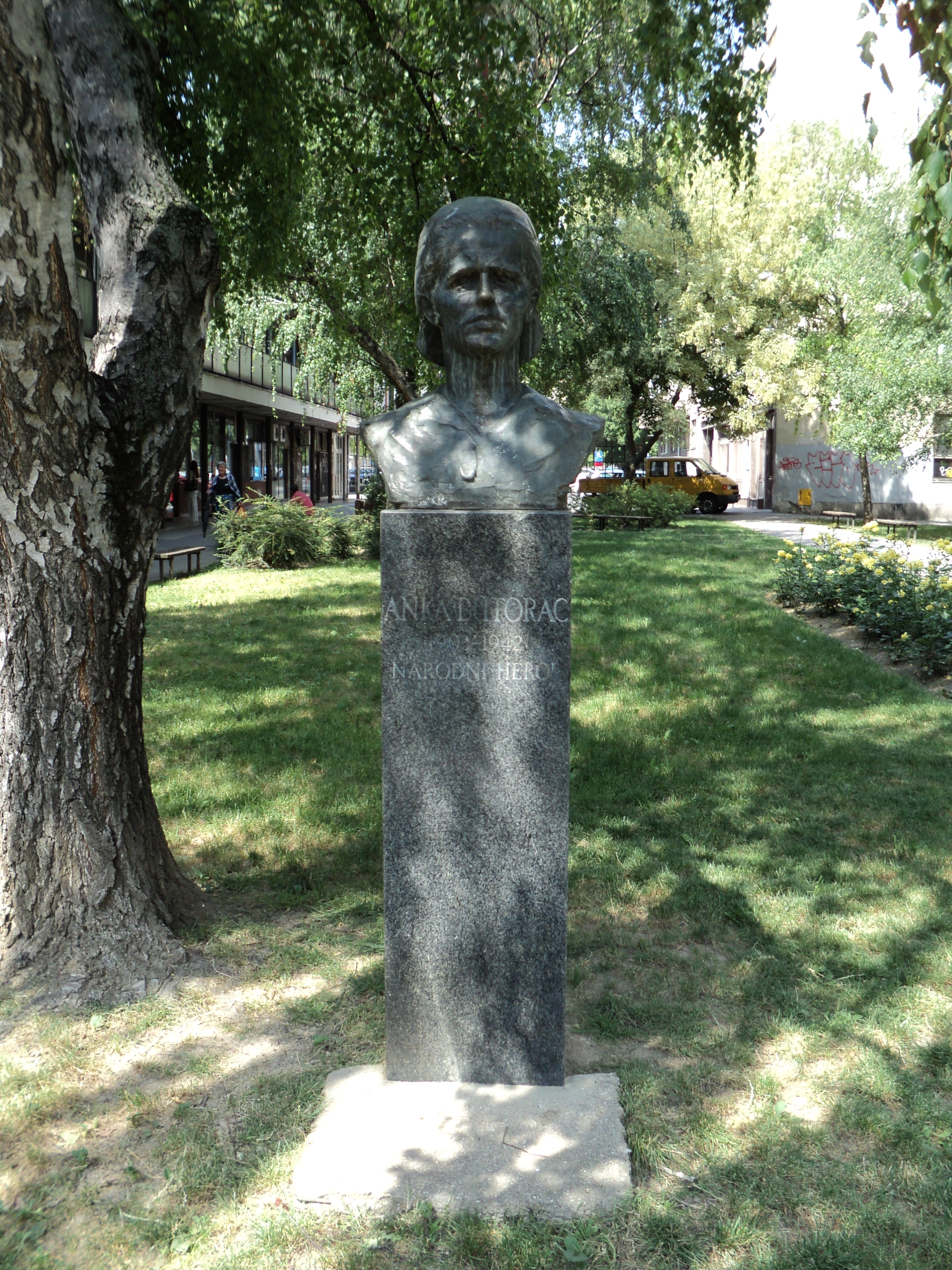 Bust of the People's hero of Yugoslavia, Anka Butorac (1903-1942) in Zagreb.